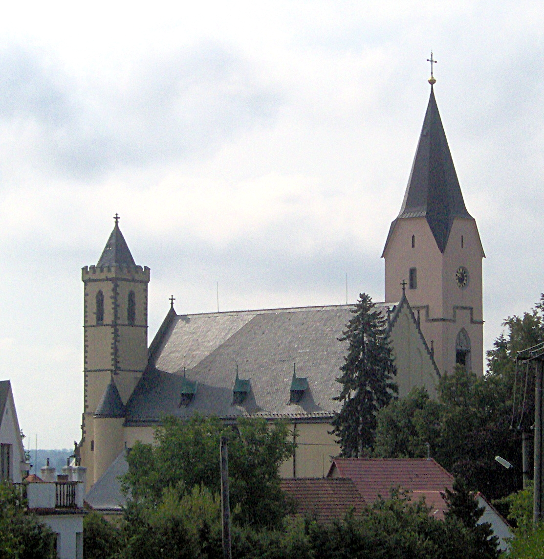 Church of the Assumption in Bavorov, Strakonice District, Czech republic